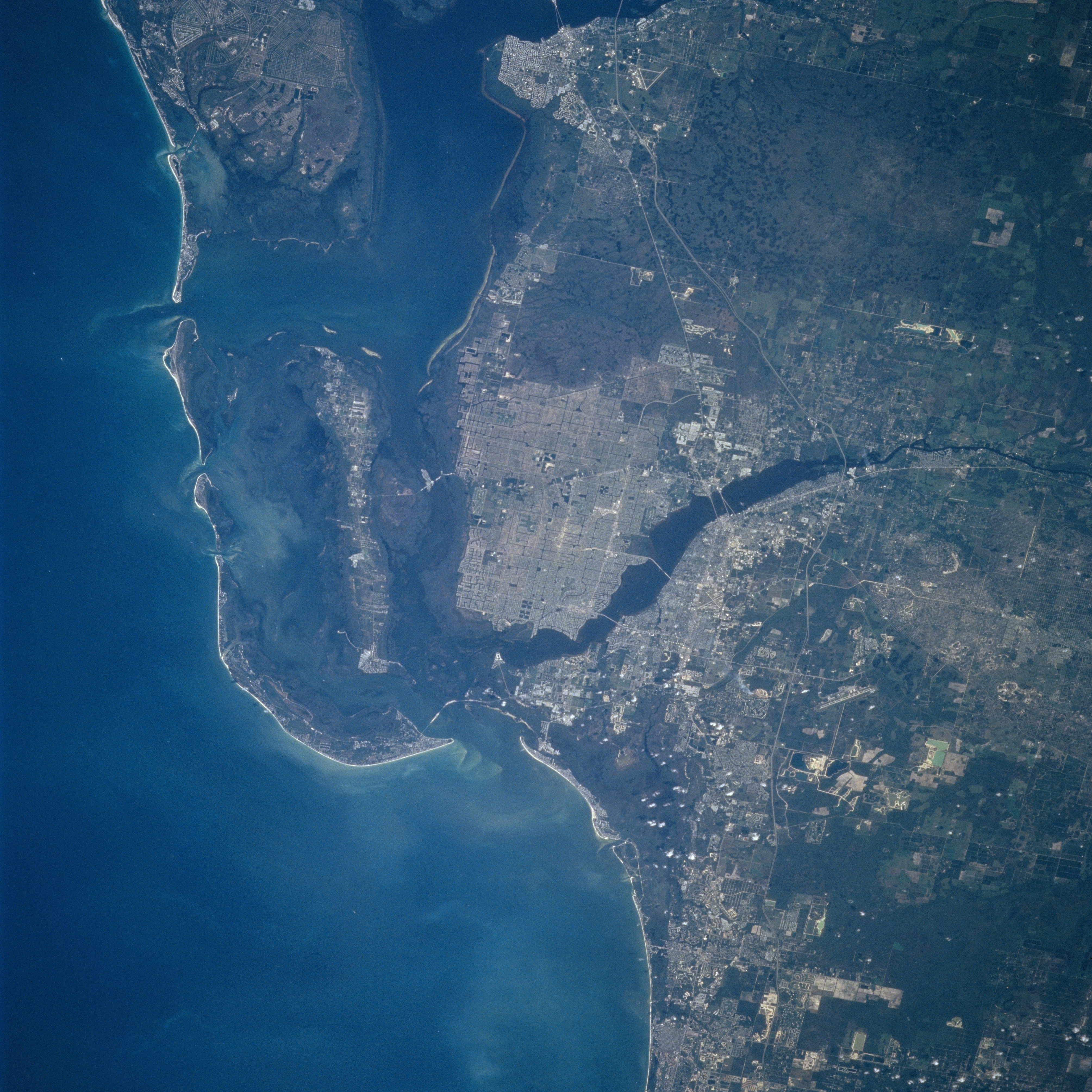 Cape Coral, Fort Myers, Florida - July 1997